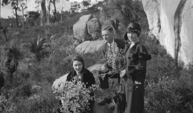 “I can remember us picking little bunches of flowers… they’d fade fairly fast but we had the pleasure of loving the beauty of these things. In fact it’s remarkable that experience, I’ll never forget it….” - Rica Erickson, 1991-1992, OH2526 Picking Wildflowers in Kalamunda Hills, 1924, 112055PD. This file is from the collection of the State Library of Western Australia. View its catalogue entry: b2443196~S2